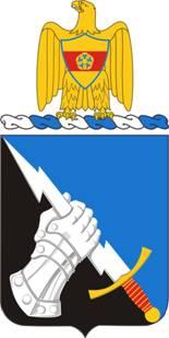 297th Military Intelligence Battalion coat of arms